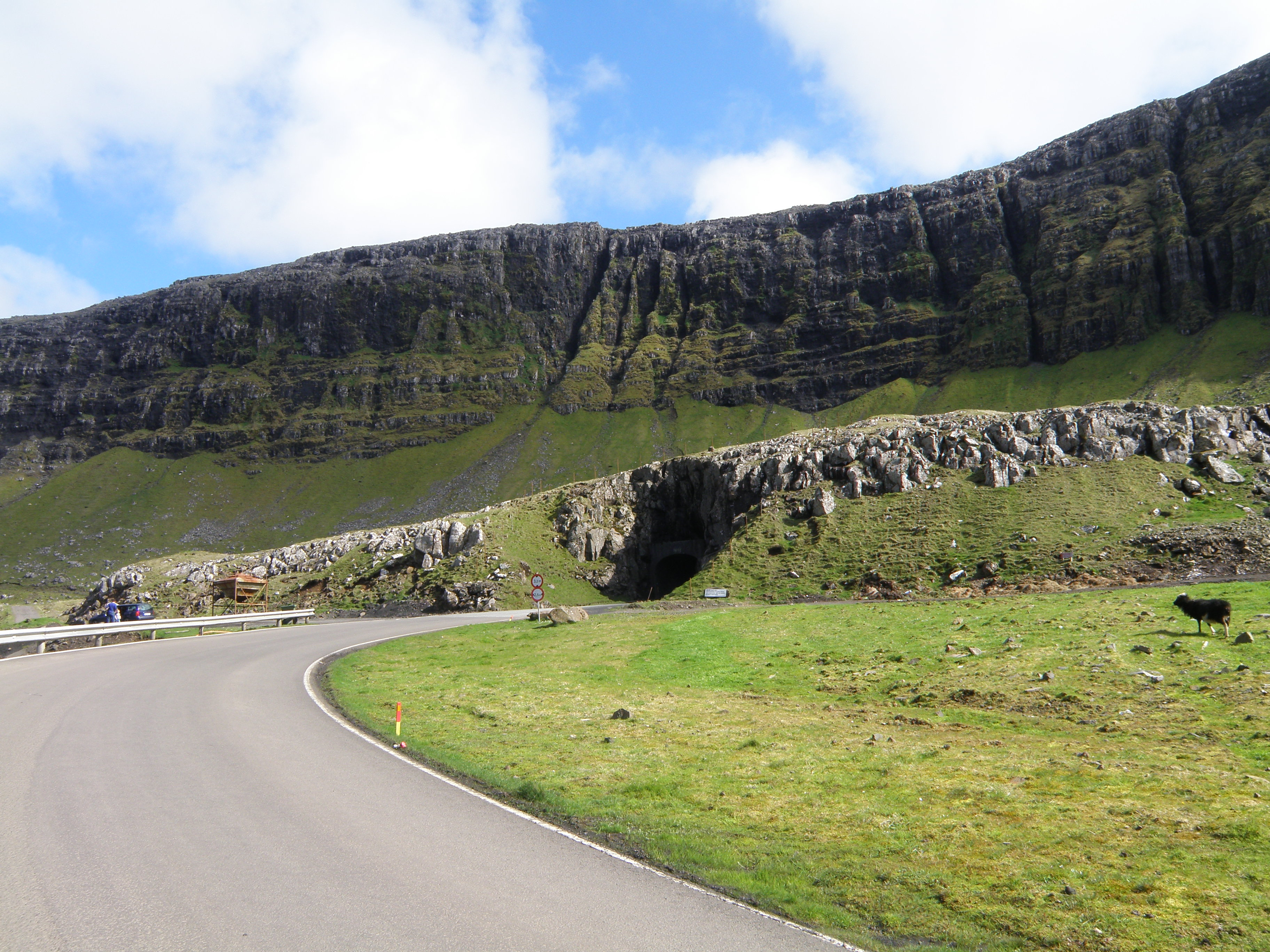 Hvalbiartunnilin is the oldest tunnel in the Faroe Islands. It connects Hvalba with Trongisvágur and the rest of the island Suðuroy. The tunnel was built in 1963 and is still in use (2011). The tunnel has only one lane and meeting areas to one side, it is marked with an M sign where these areas are. The tunnel is located quite far away from the village Hvalba, up in the valley on a mountain side where there are coal mines. The coal is in around the same level as the tunnel is. Føroyskt: Hvalbiartunnilin er elsti tunnil í Føroyum. Hann var bygdur í 1963 og er enn í brúk og einasta farleið ið fólk úr Hvalba og Sandvík mugu ferðast eftir, tá tey skulu til arbeiðis á Tvøroyri ella eitt hvørt ørindi til onnur støð á oynni sum eru sunnanfyri Hvalba, ella tá tey skulu av oynni, so er einasta farleið úr Hvalba gjøgnum henda tunnilin. Vegurin Hvalbiarmeðna eitur Kolavegurin. Navnið kemur av at har eru kolanám við tunnilin. Hvalbingar hava í nógv ár ynskt nýggja tunnil, sum skal vera á sama støði sum aðrir nýmótans tunlar og hann skal vera nógv longri niðri, so tey sleppa undan at koyra niðan eftir Kolavegnum í hálku um veturin. Tunnilin er einsporaður við møtiplássum í tí eini síðuni. Har er onki ljós inni í tunlinum.